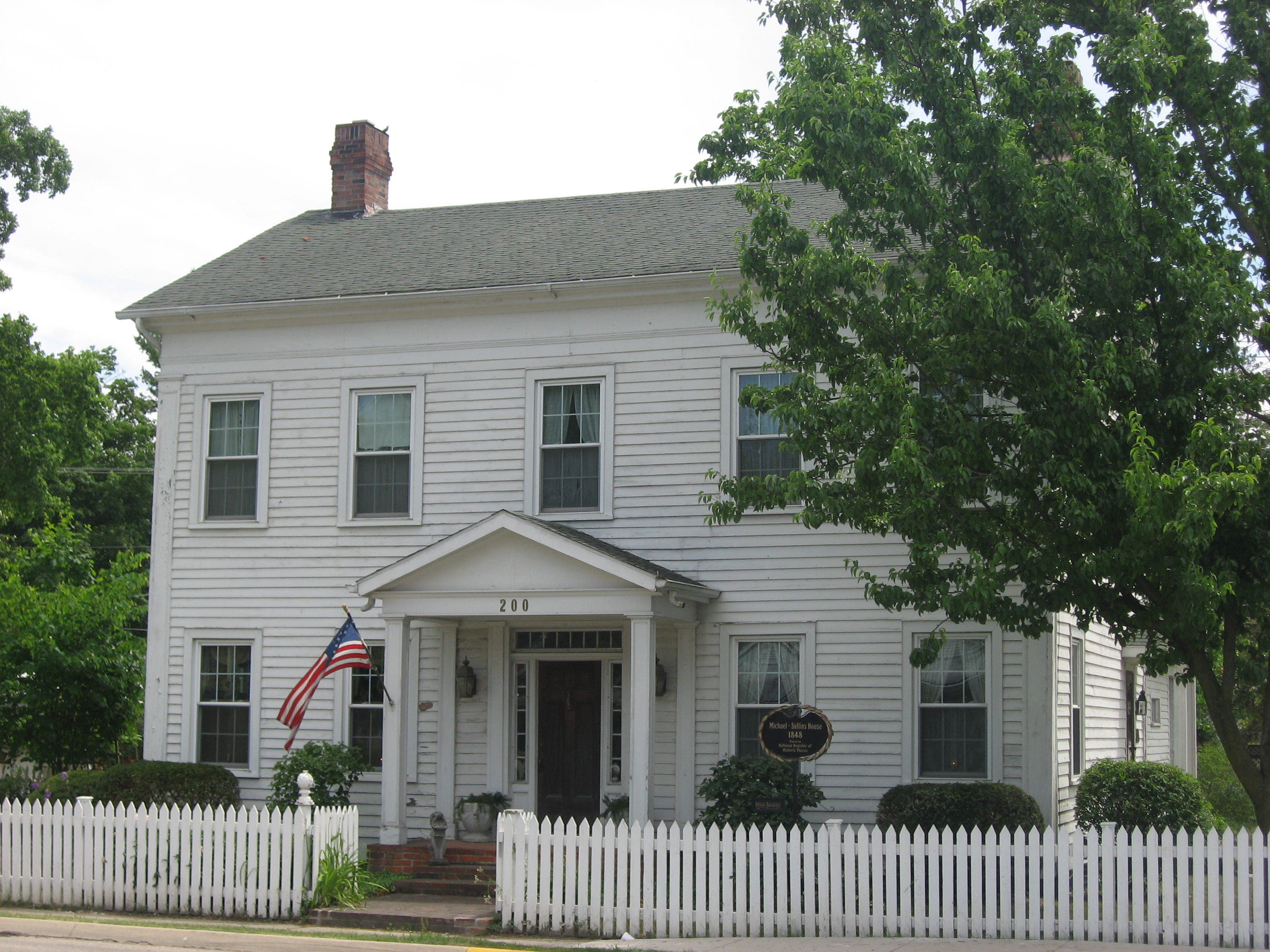 Front and western side of the Enos Michael House, located at 200 E. Toledo Street (State Road 120) in Fremont, Indiana, United States. Built in 1848, it is listed on the National Register of Historic Places.